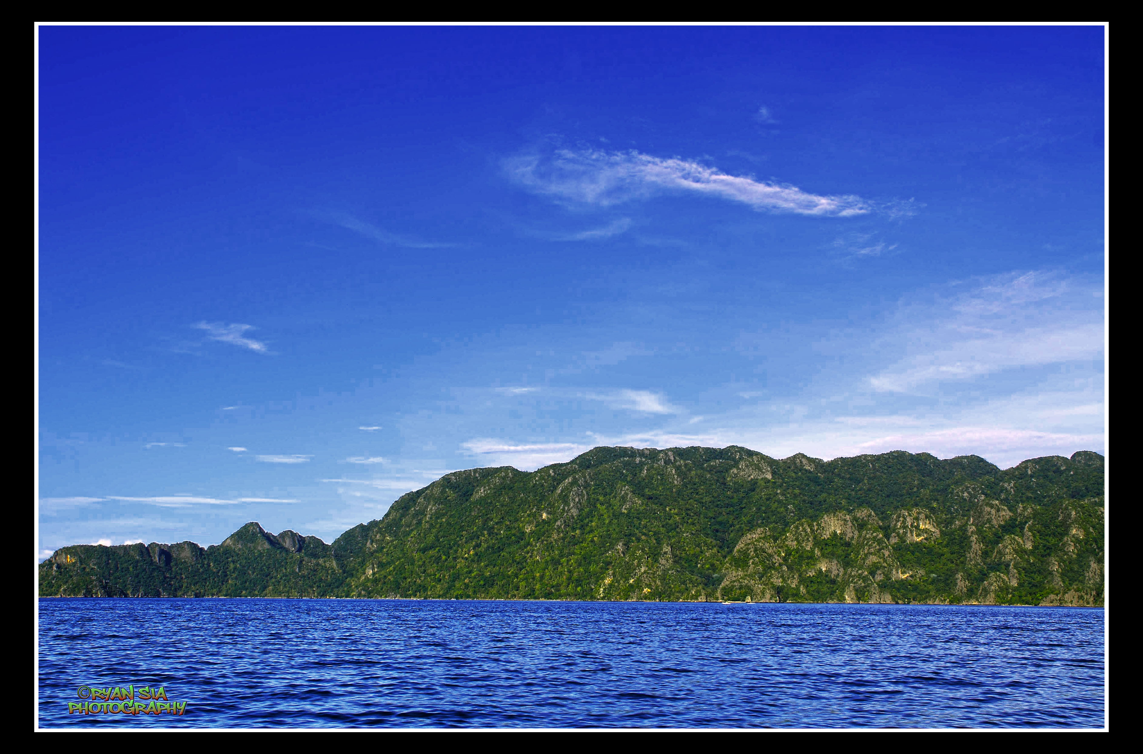 Local called this as “Sleeping giant” island, not too far from Coron’s shore, just get a closer look a giant sleeping nose and mouth are so visible.